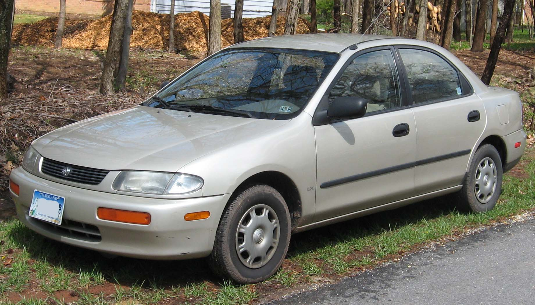 1995-1996 Mazda Protege photographed in USA.